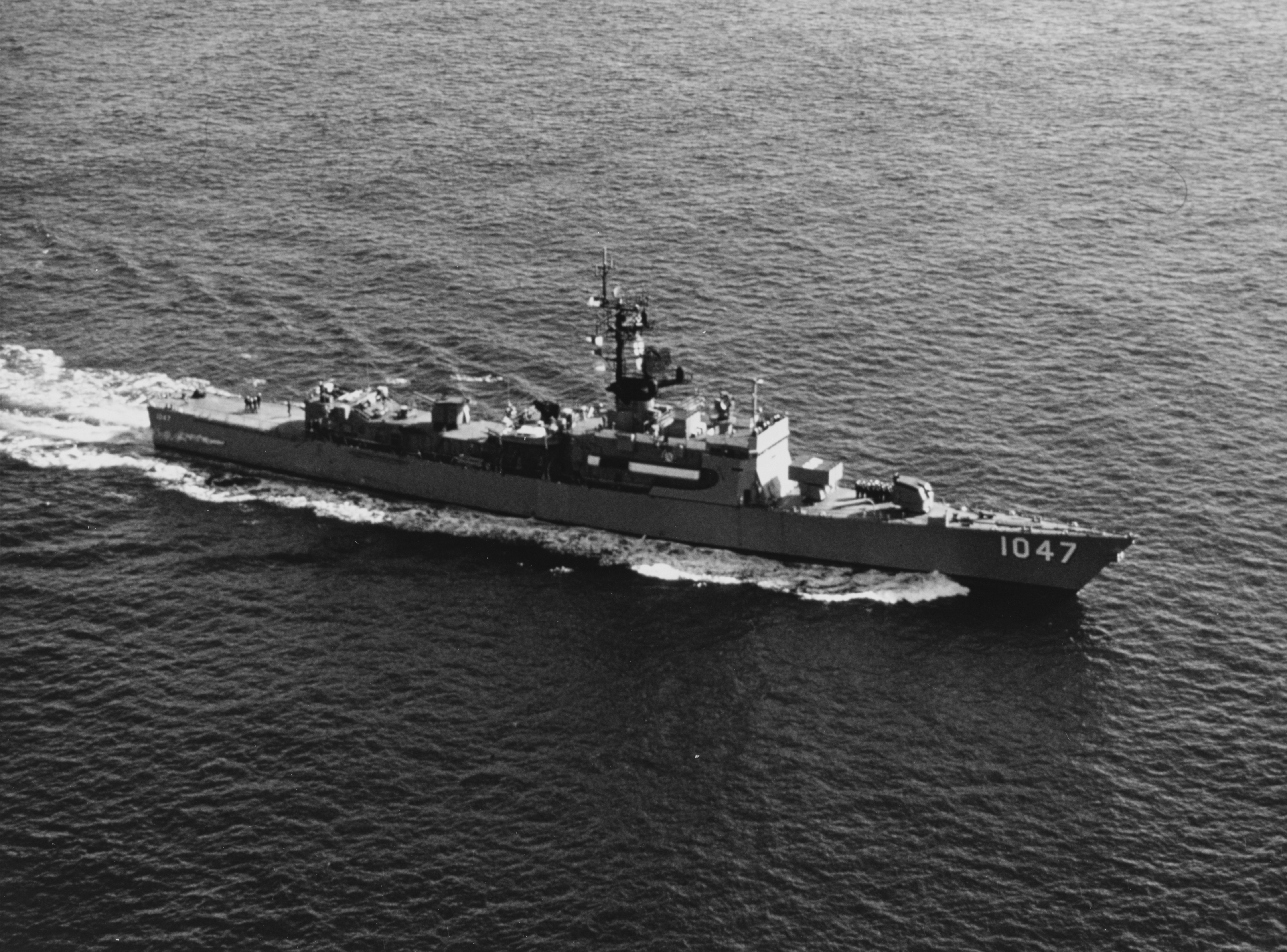 The U.S. Navy ocean escort USS Voge (DE-1047) underway off the coast of Newport, Rhode Island (USA). This view was received by the Naval Photographic Center in March 1971.